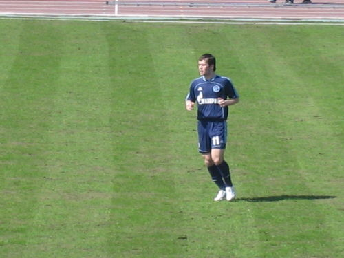 Alexandr Kerzhakov. 2006 Russian Premier League (FC Zenit St.Petersburg v.s. FC Spartak Moscow)